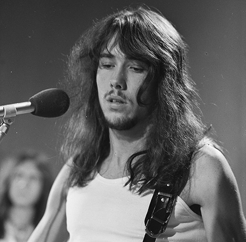 George Kooymans (Golden Earring) performing in TopPop Special (Dutch TV). Recorded 16 April 1971. Broadcast 21 May & 8 June 1971.